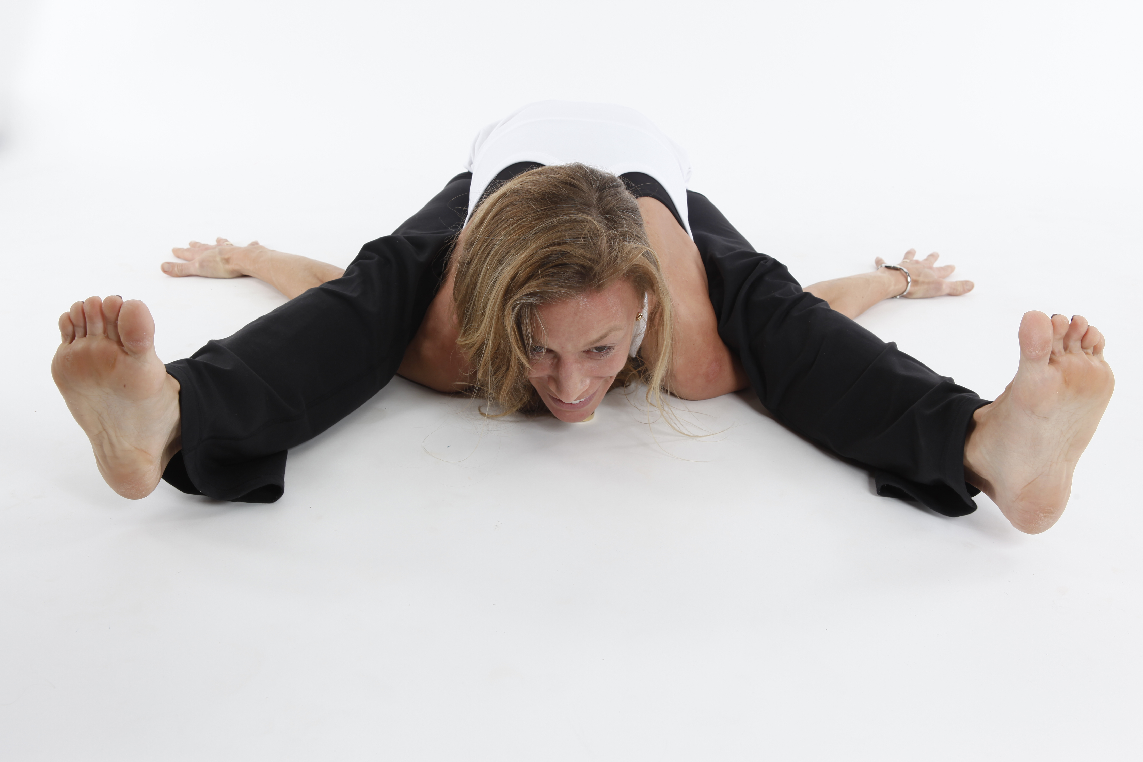 Kūrmāsana - Tortoise Pose with Hands Facing Back